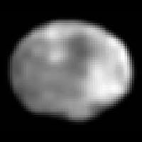 A NASA Hubble Space Telescope image of the asteroid Vesta, taken in May 1996 through a 673 nm red filter when the asteroid was 175 million kilometers from Earth. The asymmetry of the asteroid and "nub" and the south pole is suggestive that it suffered a large impact event. The image was digitally restored to yield an effective scale of six miles per pixel.